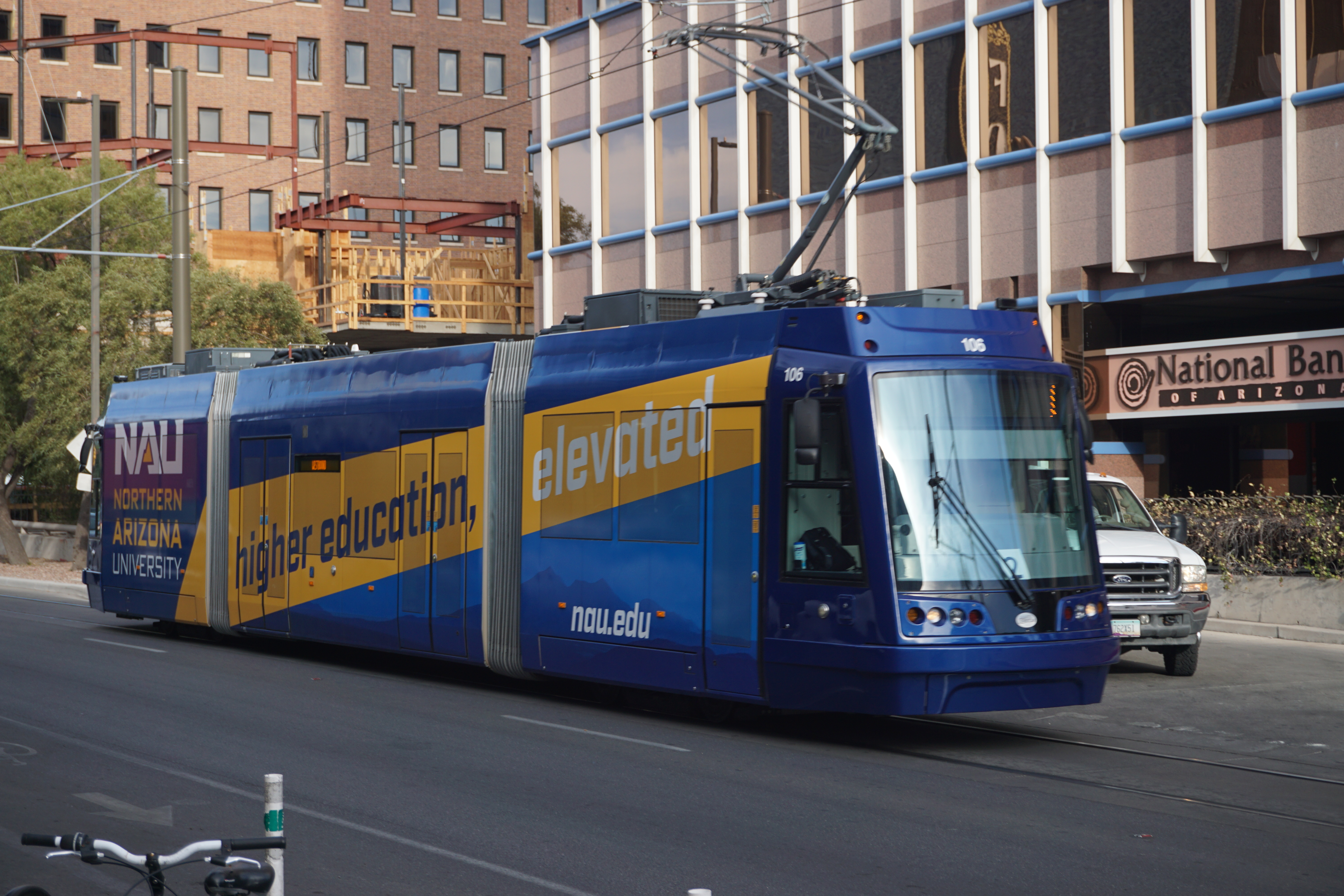 A Sun Link streetcar in Tucson, Arizona (United States).